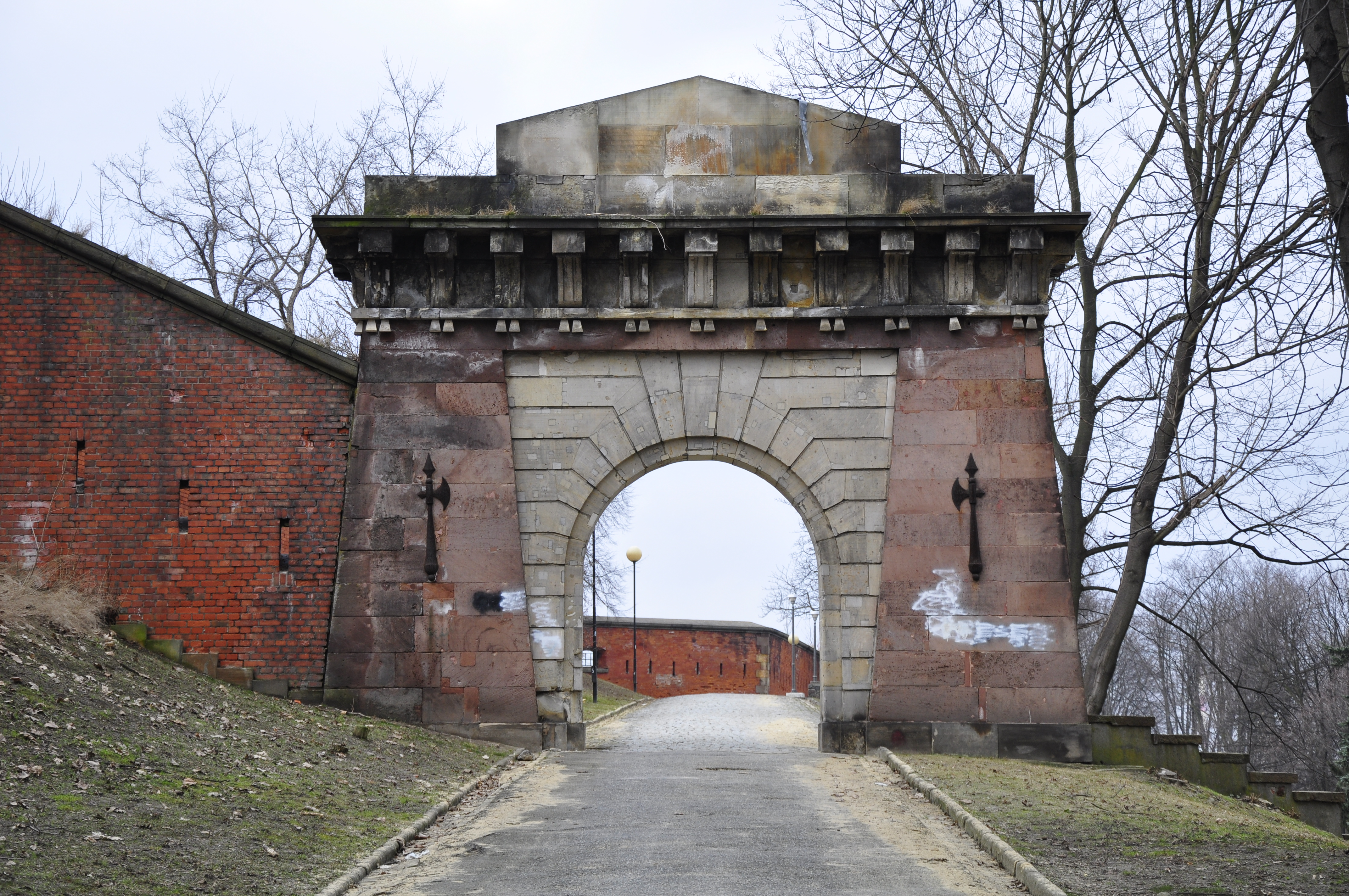 Cytadela Warsaw